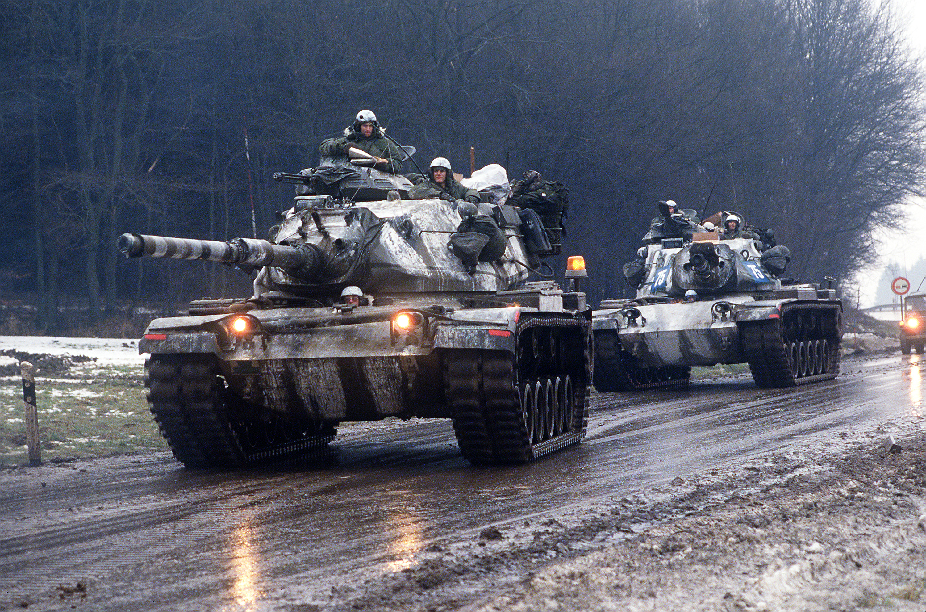 Two M-60A3 main battle tanks move along a road during Central Guardian, a phase of Exercise Reforger '85. Location: Giessen, Germany.